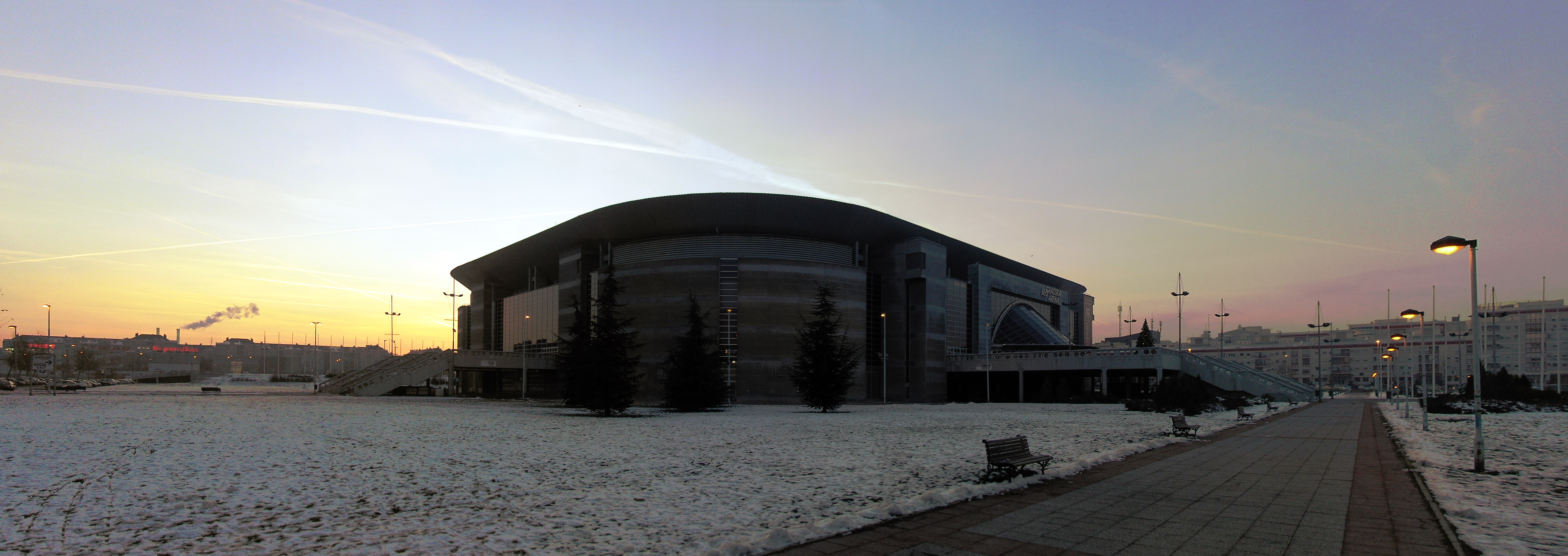 East look toward Belgrade Arena.